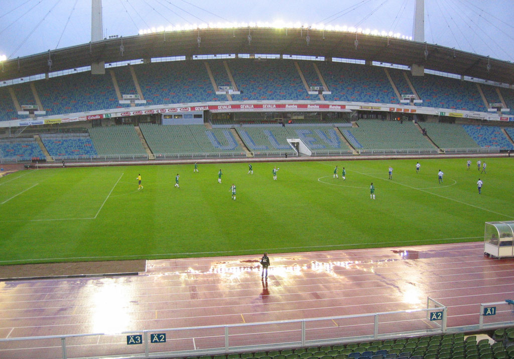 Ullevi Stadium before training match between IFK Göteborg and Hammarby IF.